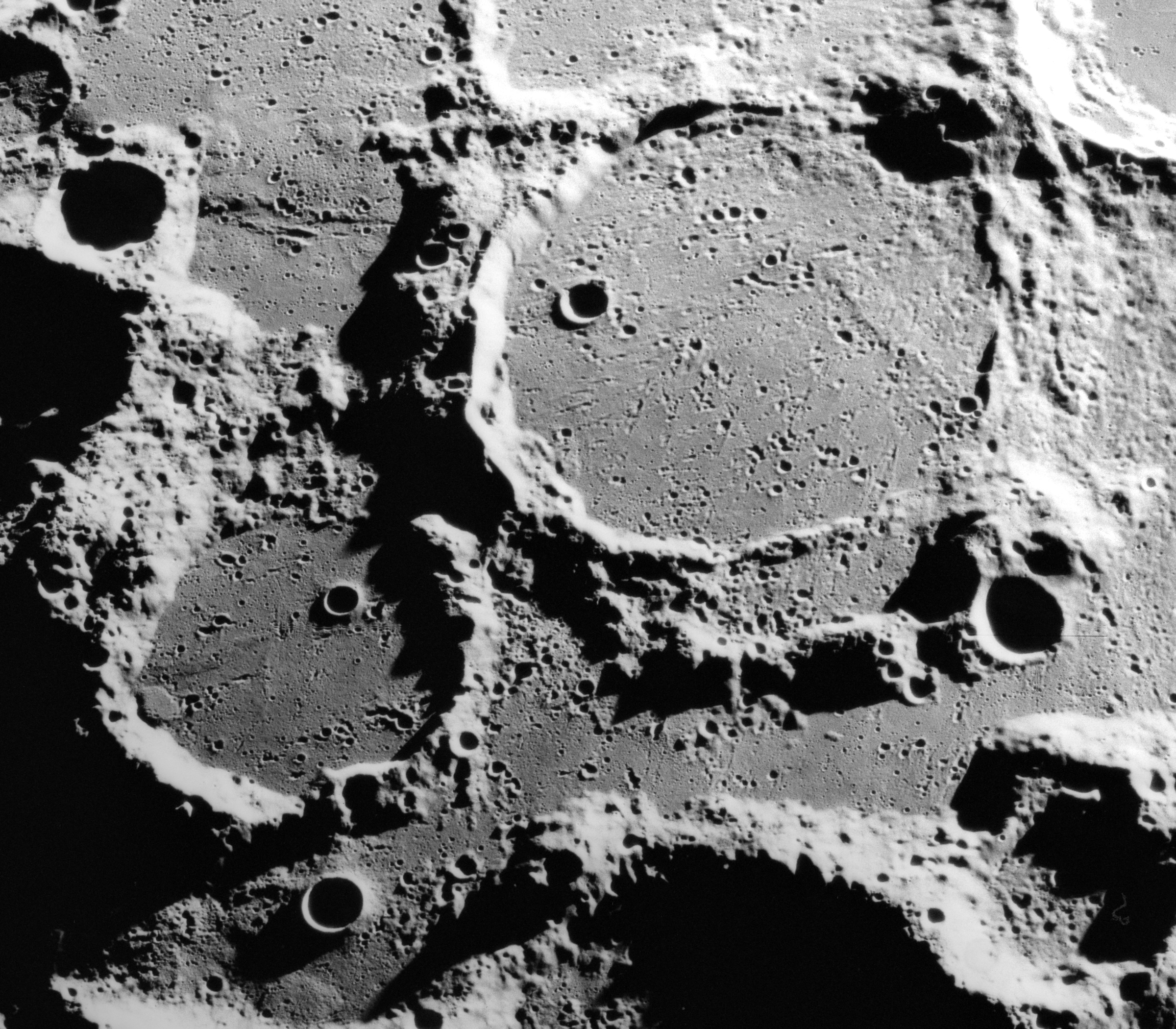 Oblique view of Lamb crater, on the moon. Lamb is largest crater in upper right. Satellite crater Lamb G is in lower left. Lamb E is small crater below G. Lamb A is small crater to lower right of Lamb. Taken by Apollo 15 mapping camera just after trans-Earth injection.